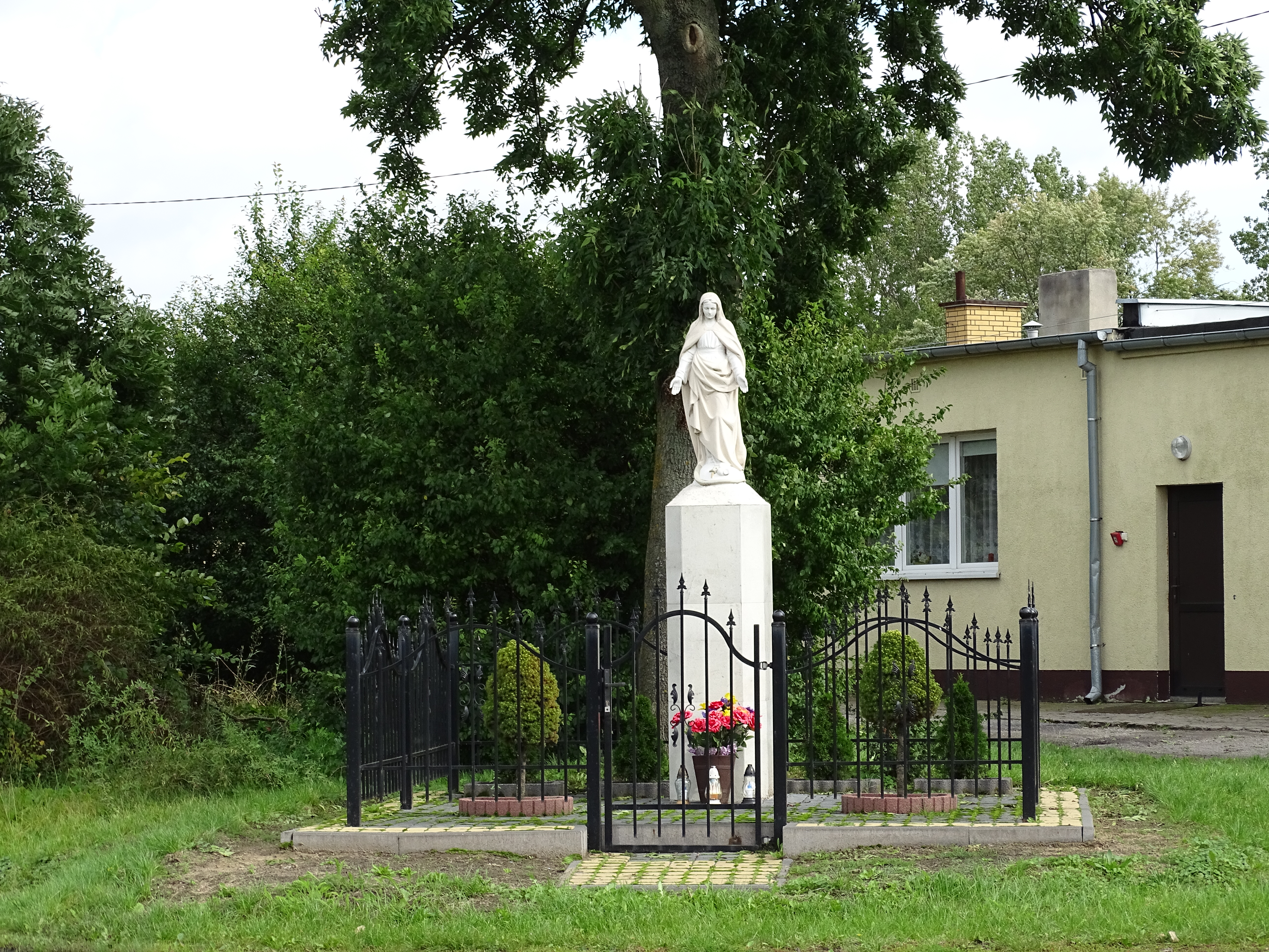 Ściborze. Gmina Rojewo. Kuyavia. Poland. Virgin Mary Statue.